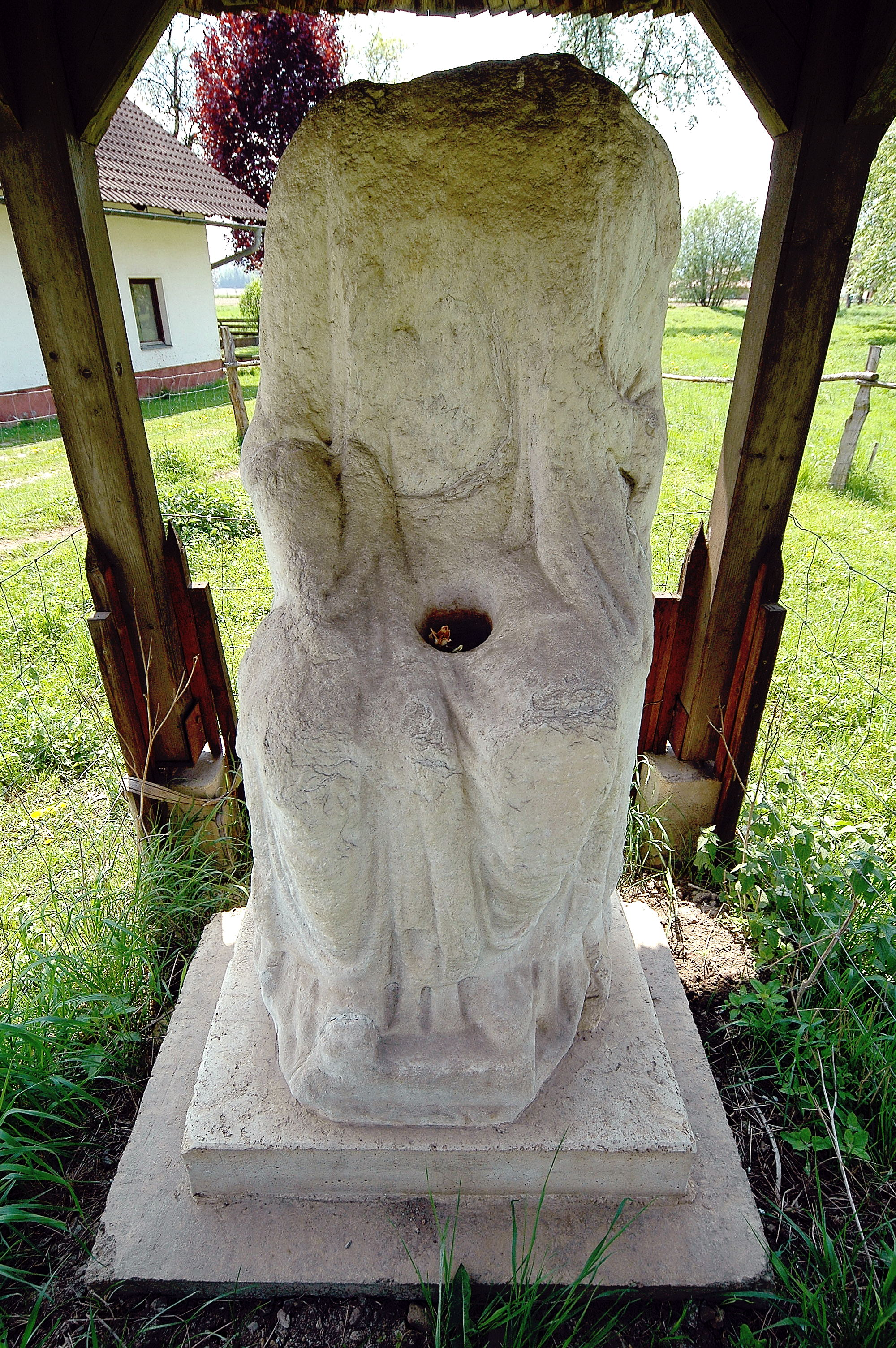 Decapitated statue of the goddess Isis Noreia in Wutschein, market town Magdalensberg, district Klagenfurt Land, Carinthia, Austria, EU